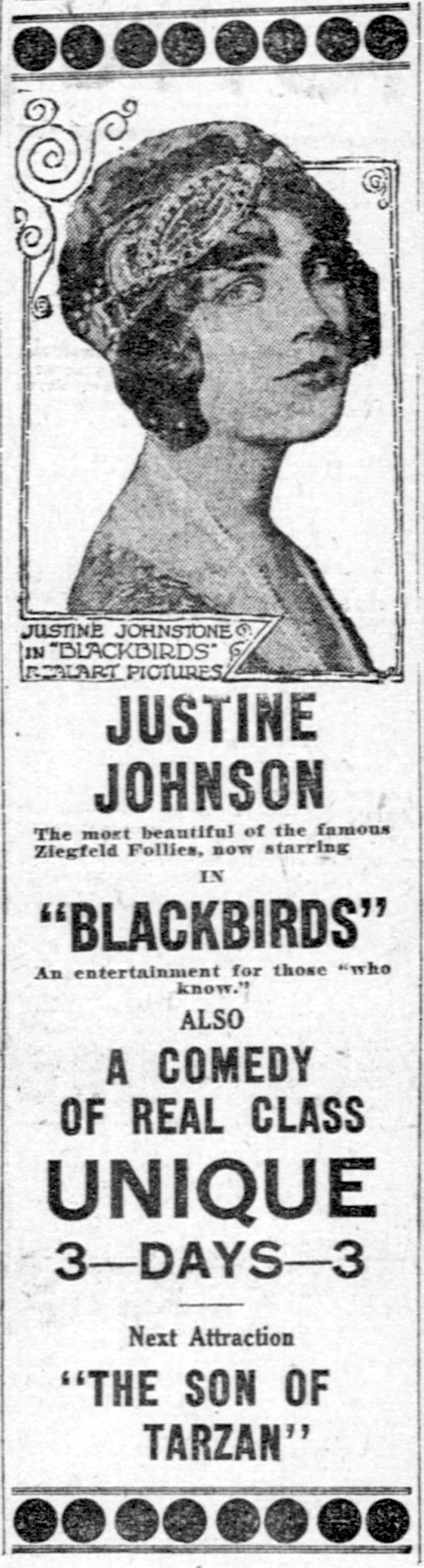 Blackbirds is a lost 1920 silent film crime drama produced and distributed by Realart Pictures, an affiliate of Paramount. This is a newspaper advert for the film.